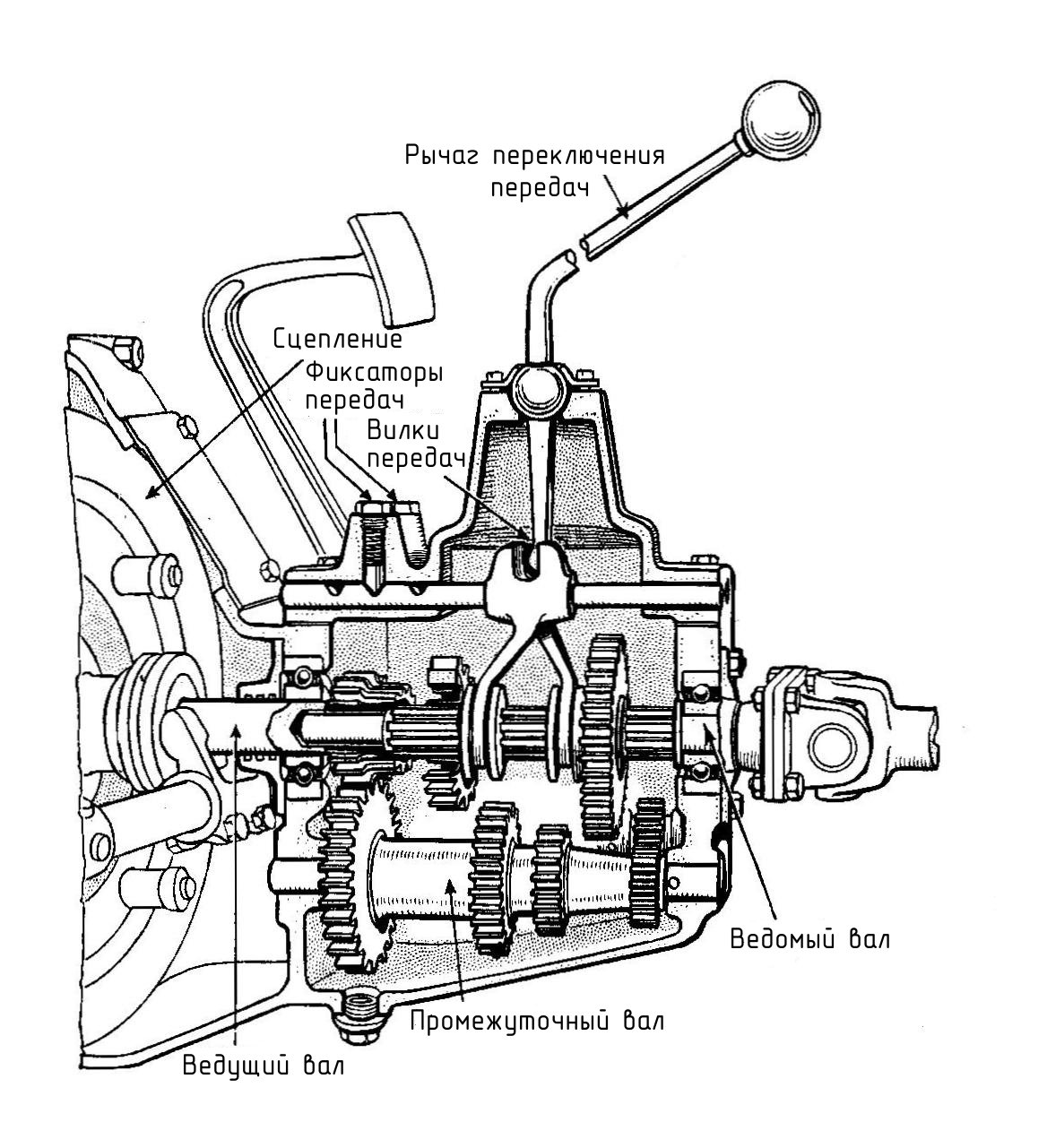 Based on File:Gearbox (Autocar Handbook, 13th ed, 1935).jpg, translated description to Russian